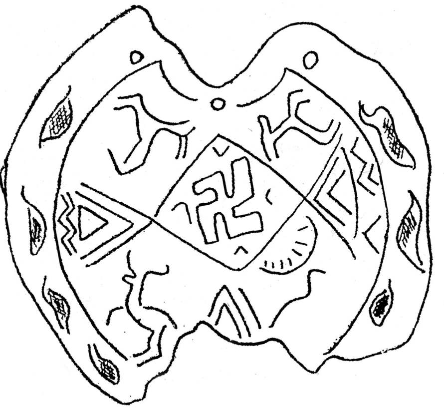 Swastikas from Ancient Armenia Kakhik, Shamkhor, Armenia